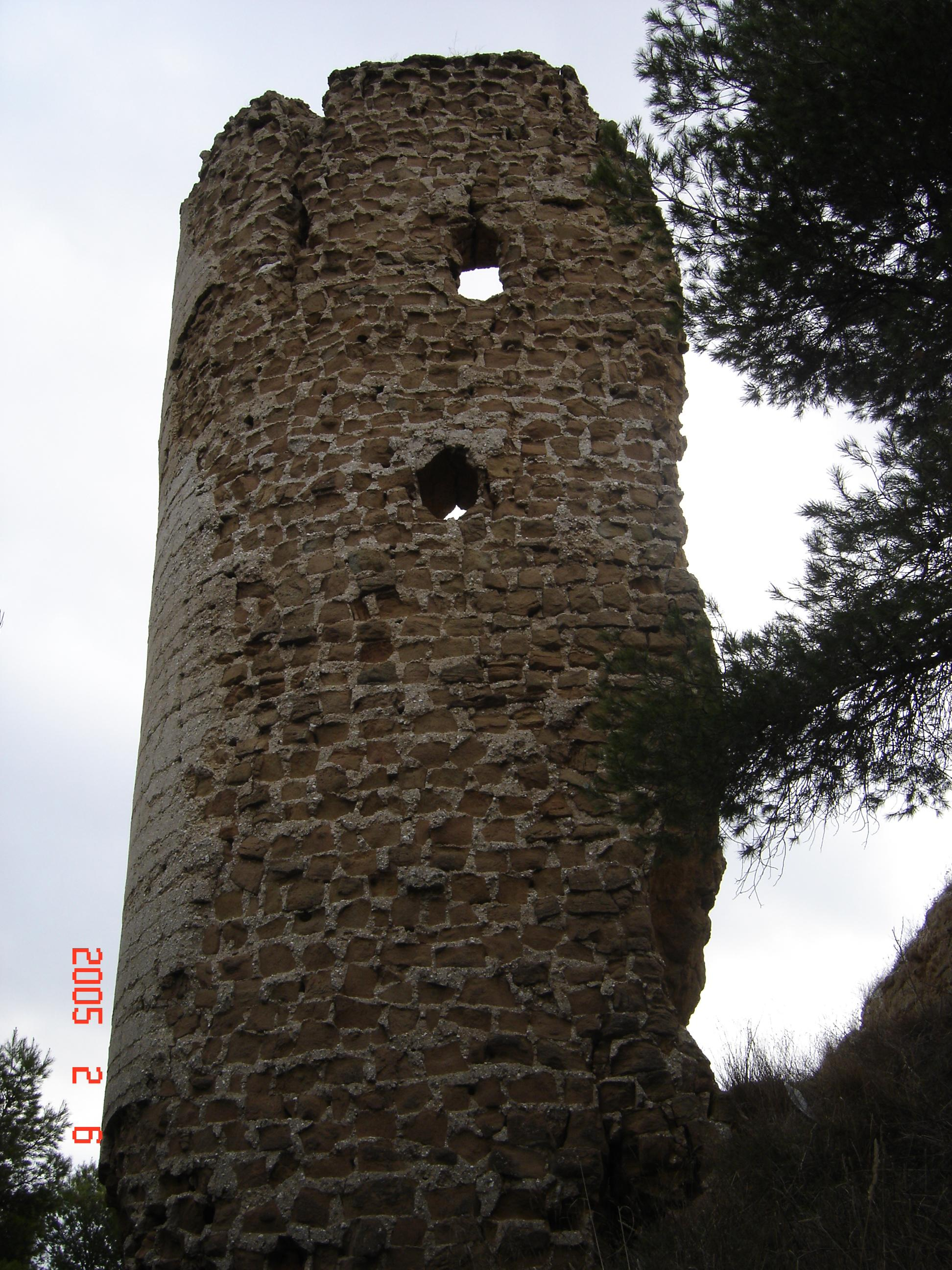 Castell of the Moors at Tamarite de Litera.